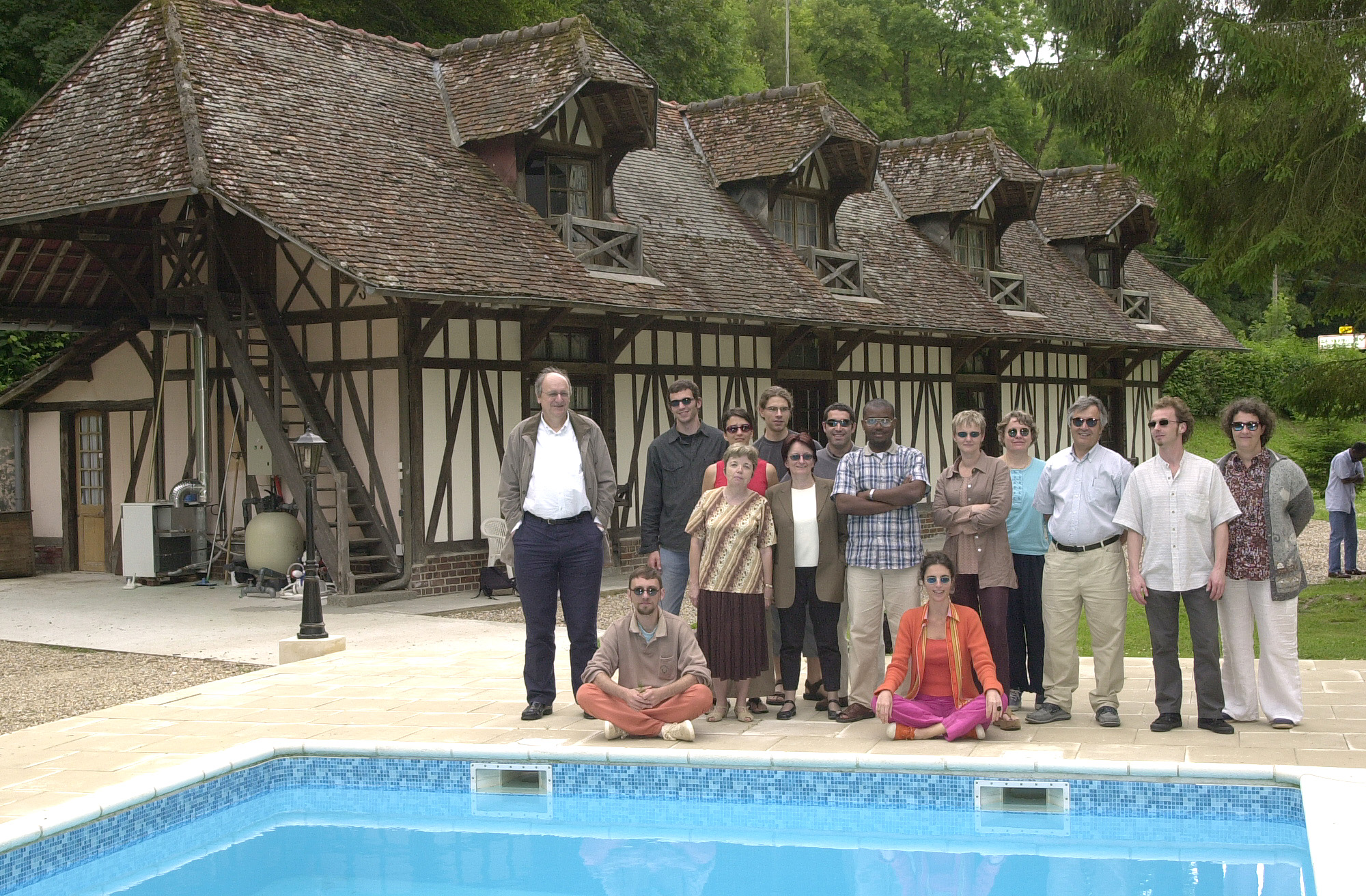 Departmental retreat in normandy